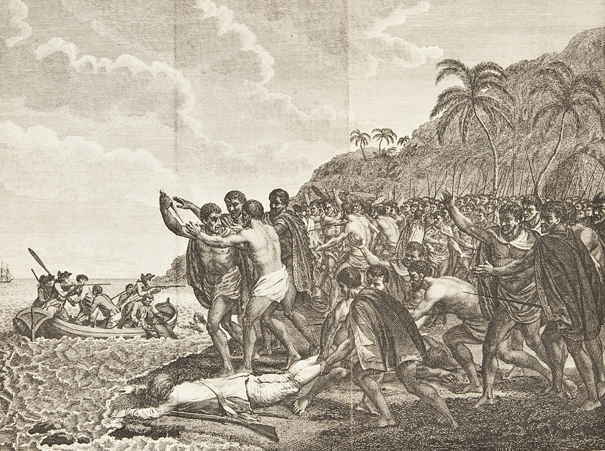 Captain Cook's Voyage, Octavo Edition. Copper engraving of "The Death of Captain James Cook, F. R. S. at Owhyhee in MDCCLXXIX". Drawn by D. P. Dodd & others who were on the spot. Engraved by T. Cook. Publish'd Novr. 20, 1784, by J. Fielding, Pater-noster Row, Scatcherd & Whitaker Ave Maria Lane, & J. Stockdall Piccadilly